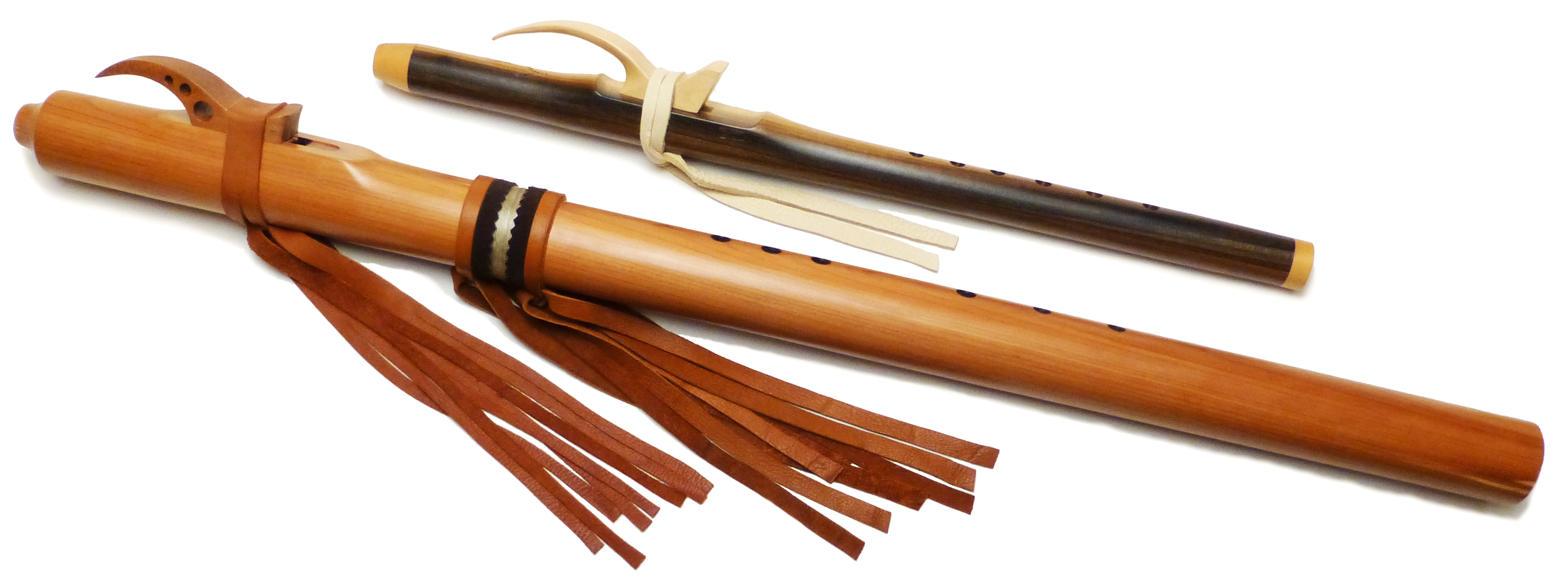 Two contemporary Native American flutes. These flutes are one octave apart - an upper-mid-range Bb and a Low Bb.